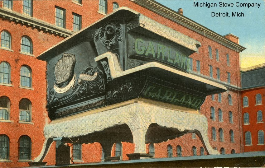 Postcard of Michigan Stove Company factory plant with stove replica